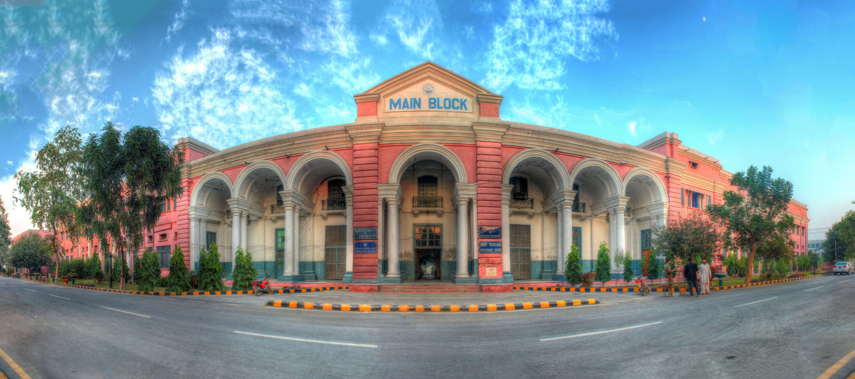 Main Block, UET Lahore